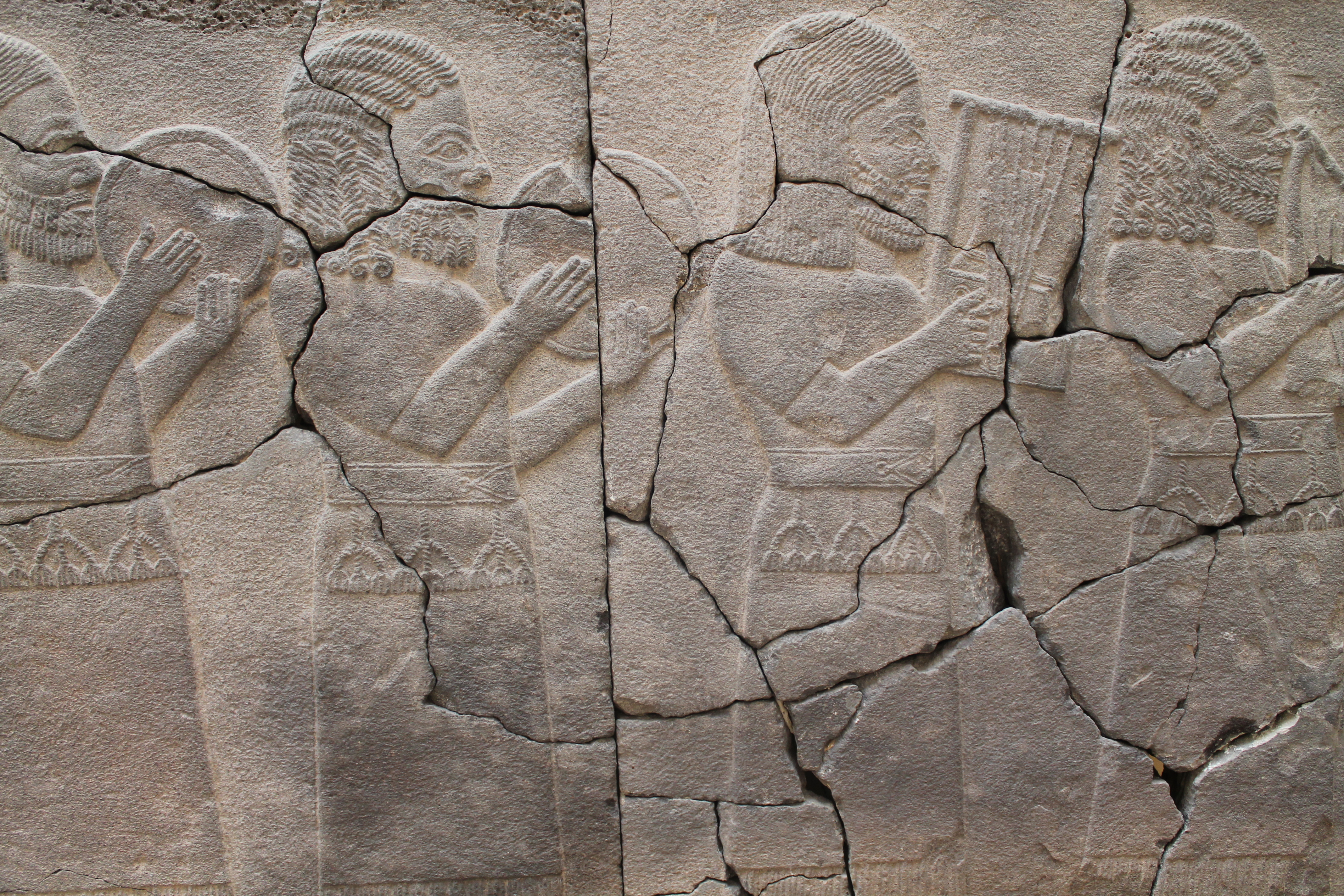 Hittite Musicians in Istanbul Archaeological Museum